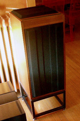 Linn Isobarik loudspeaker quote from Wikipedia:en:Linn Isobarik "The Linn Isobarik DMS (with in-built crossover) in a domestic setting"